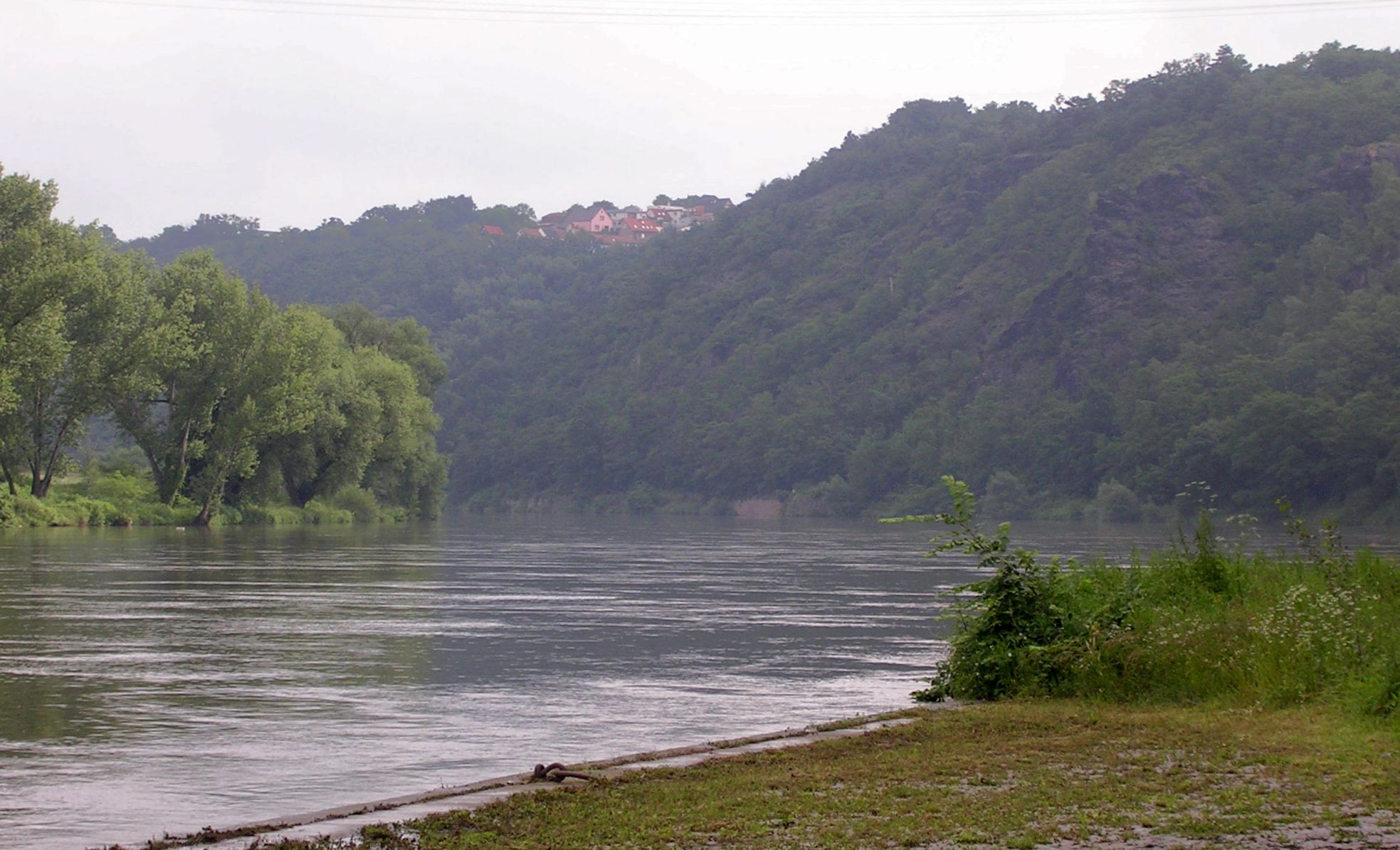 Větrušice, Prague-East District, Central Bohemian Region, the Czech Republic.